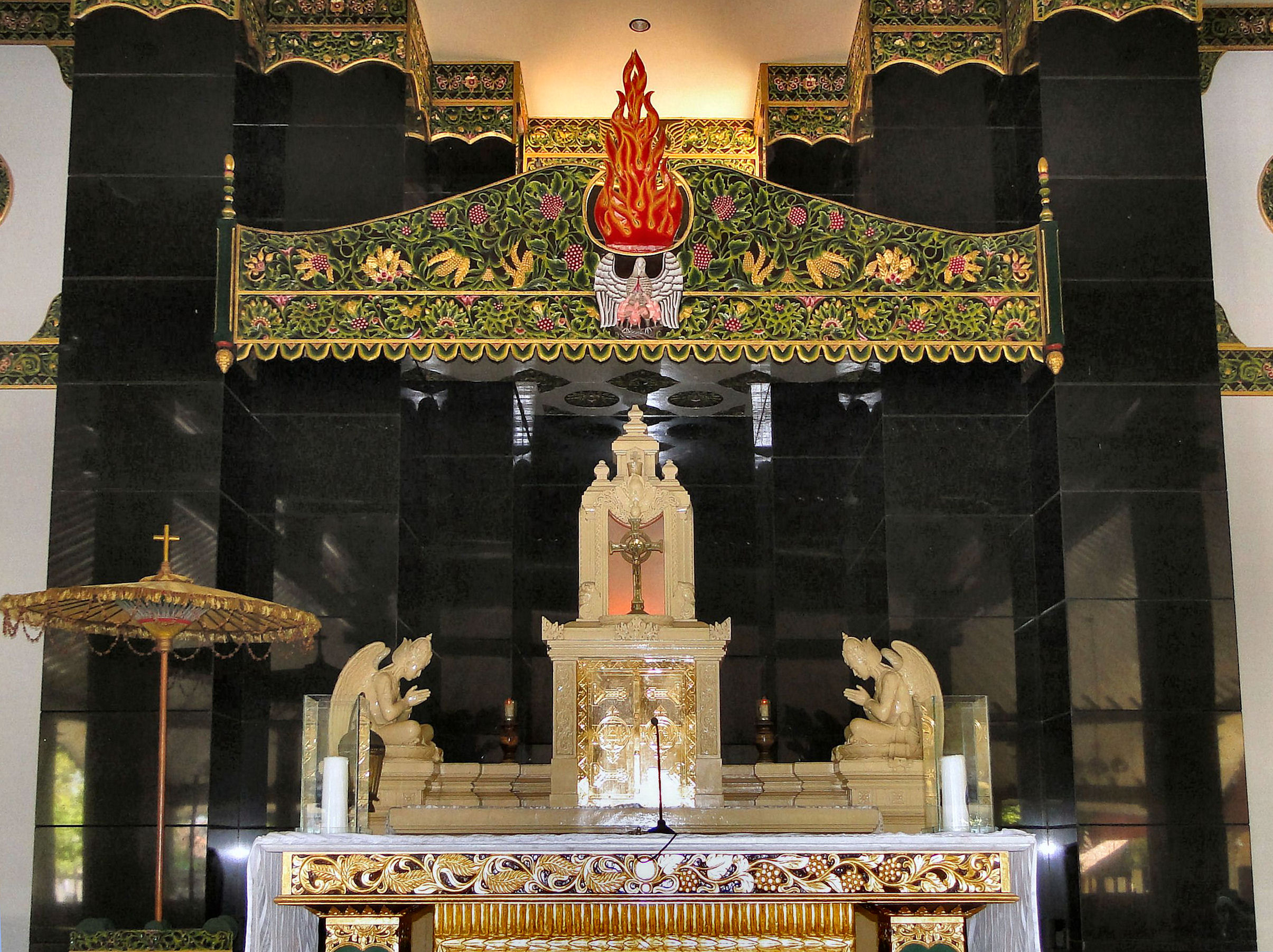 High Altar, Ganjuran, Bantul, Java, Indonesia